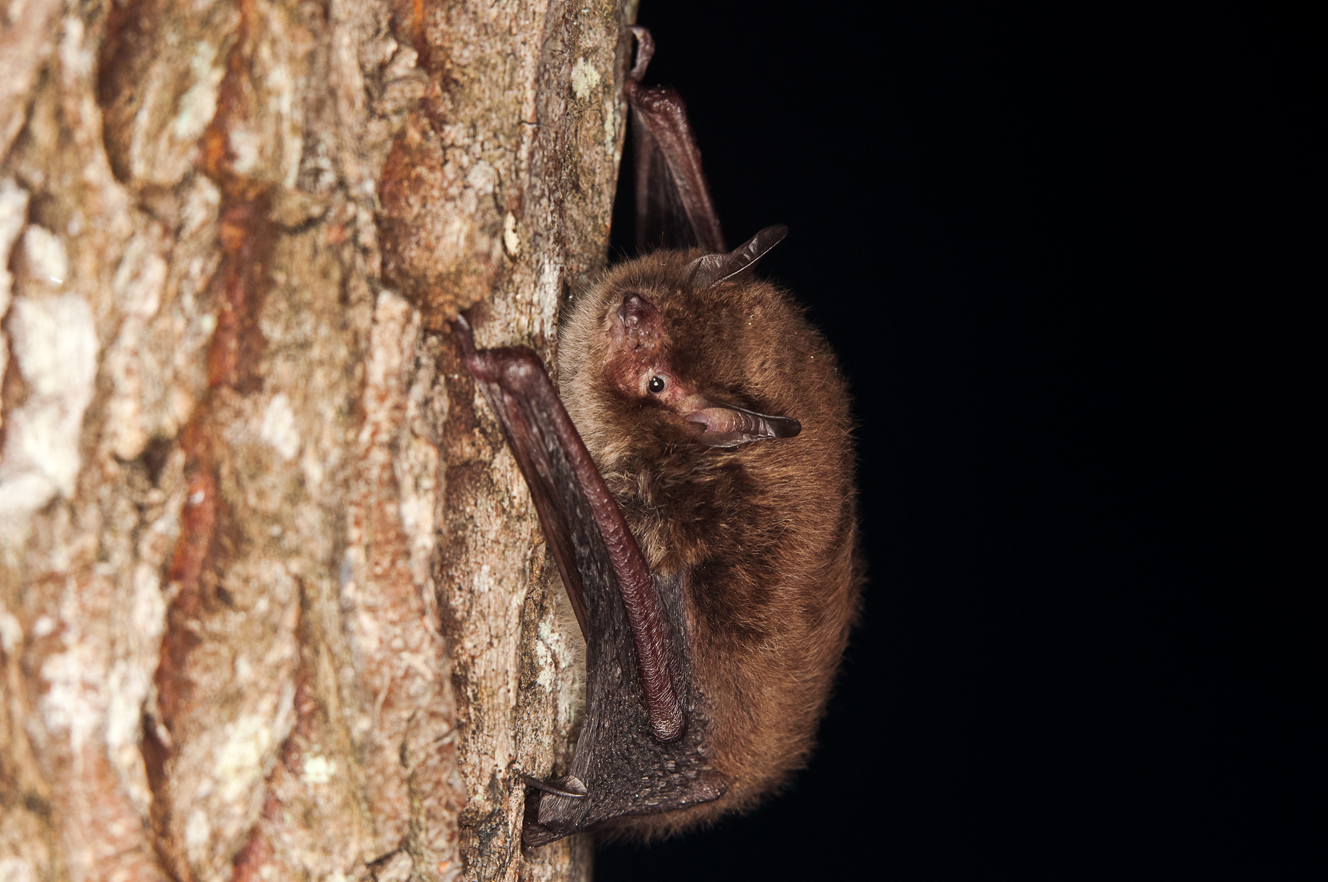 Daubenton`s Bat (Myotis daubentonii) is widely distributed bat species inhabiting Eurasia. It forages mostly flying close to the surfaces on water-bodies.